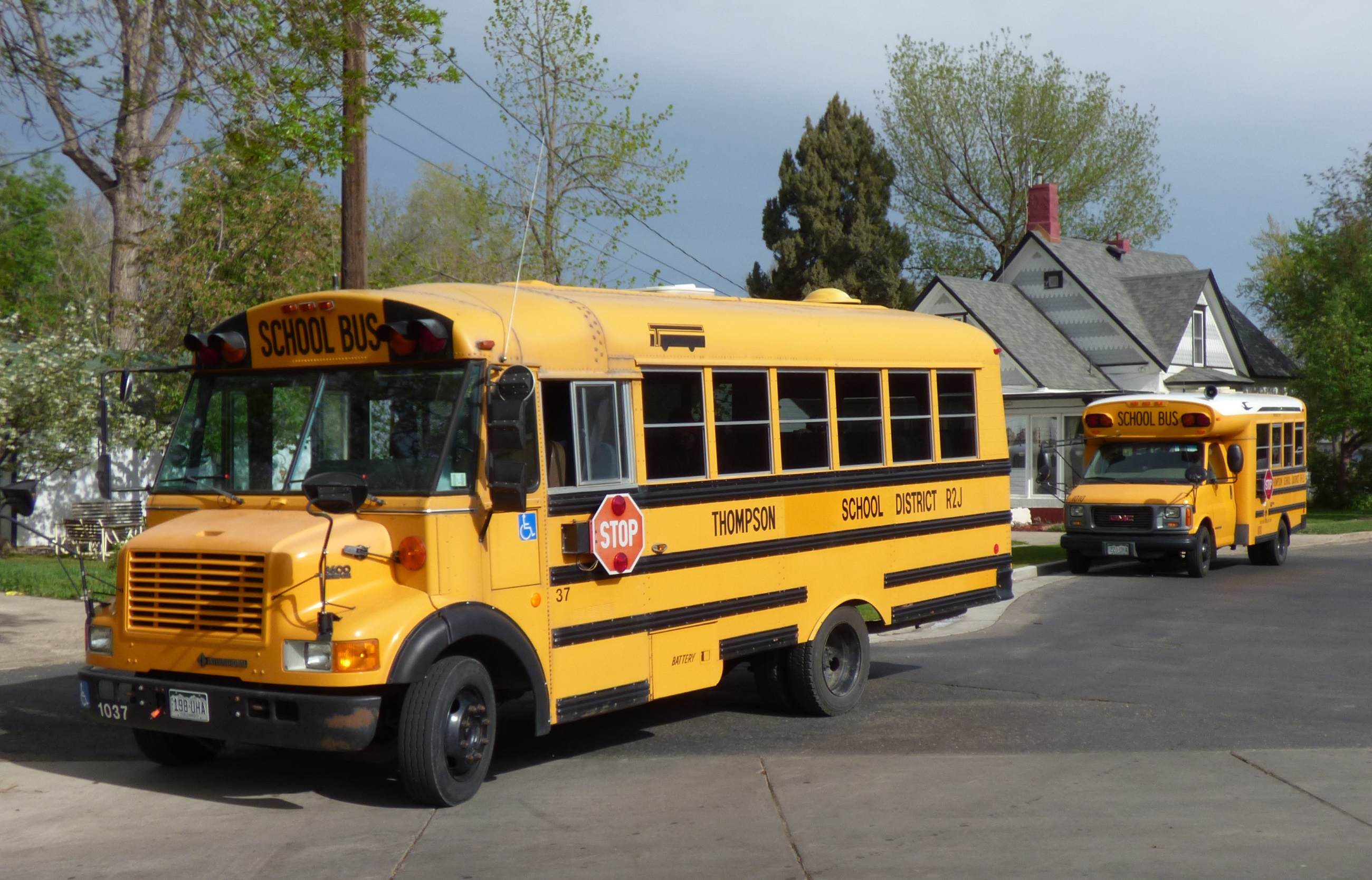 school buses, Loveland CO / 2014